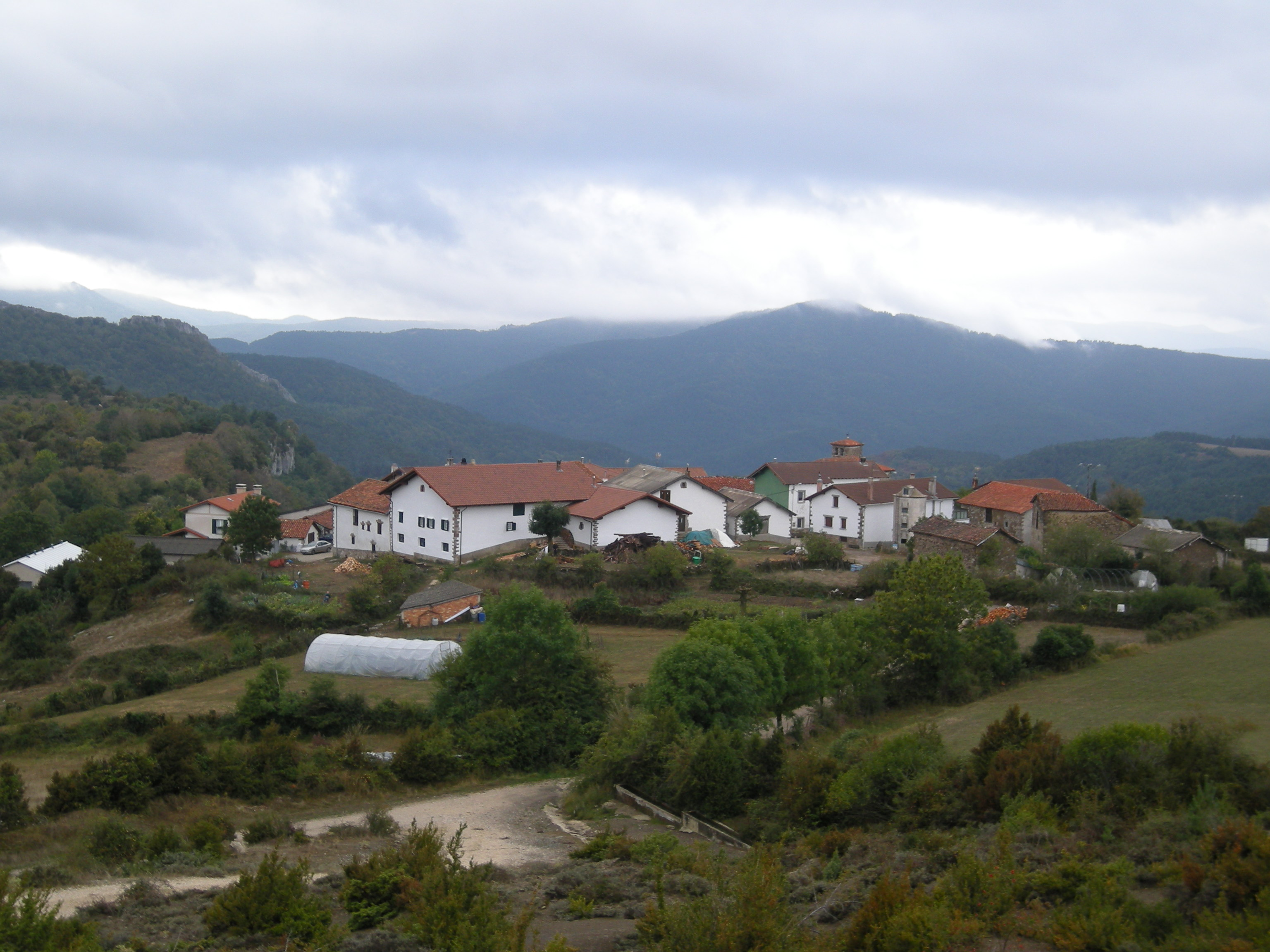 general wiew